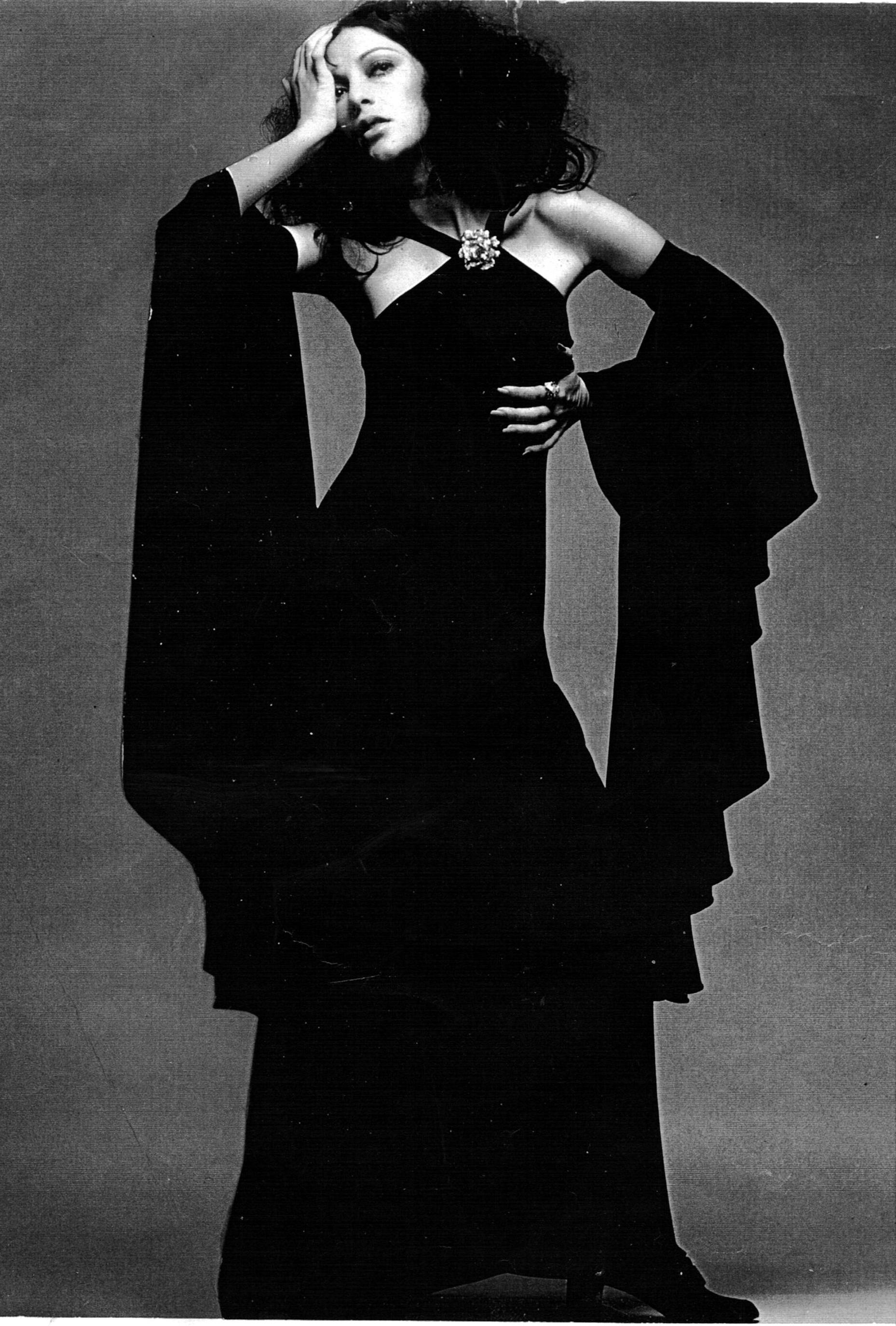 Jerry Melitz studio.